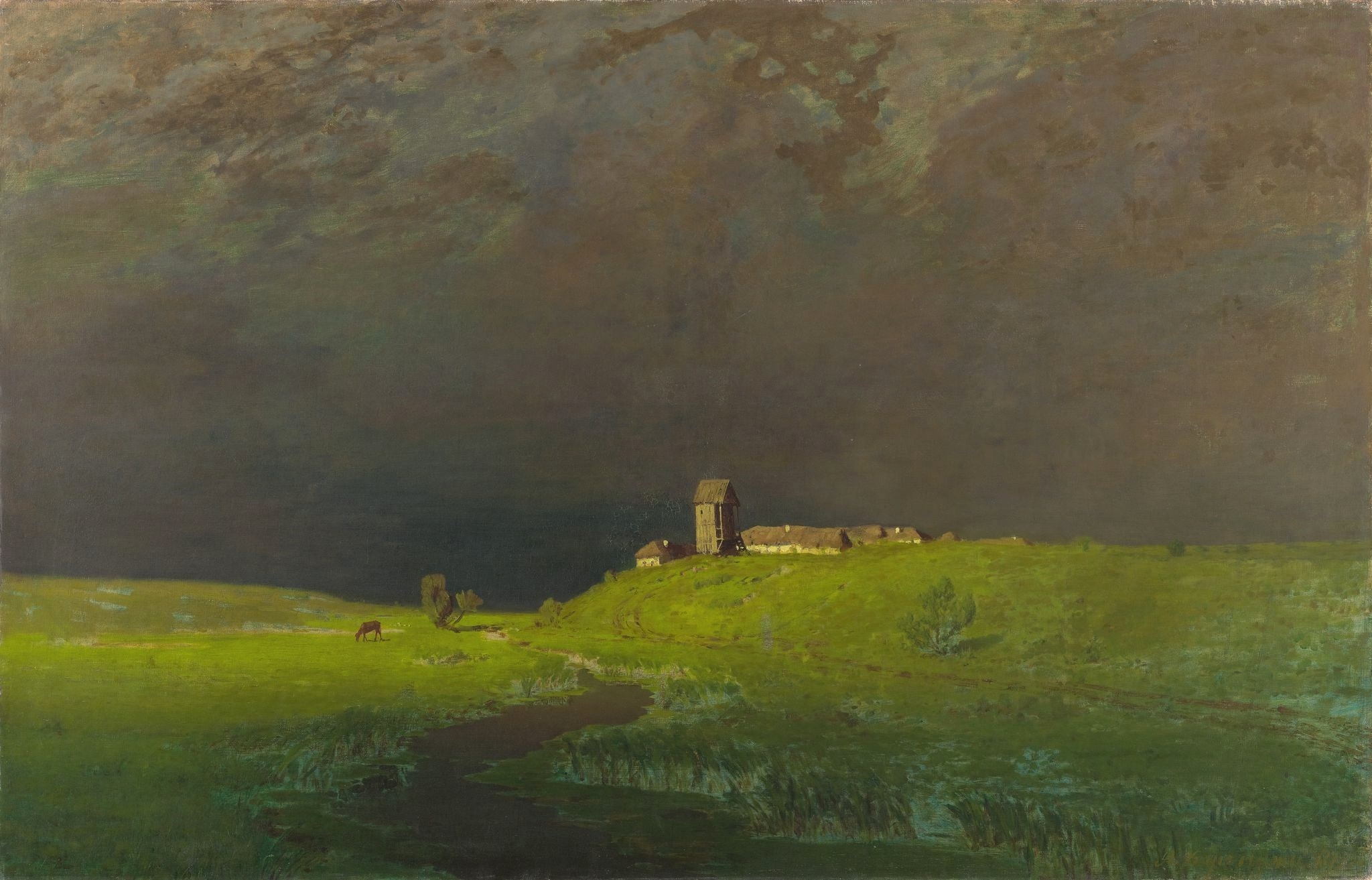 After a rain (painting by Arkhip Kuindzhi, 1879)